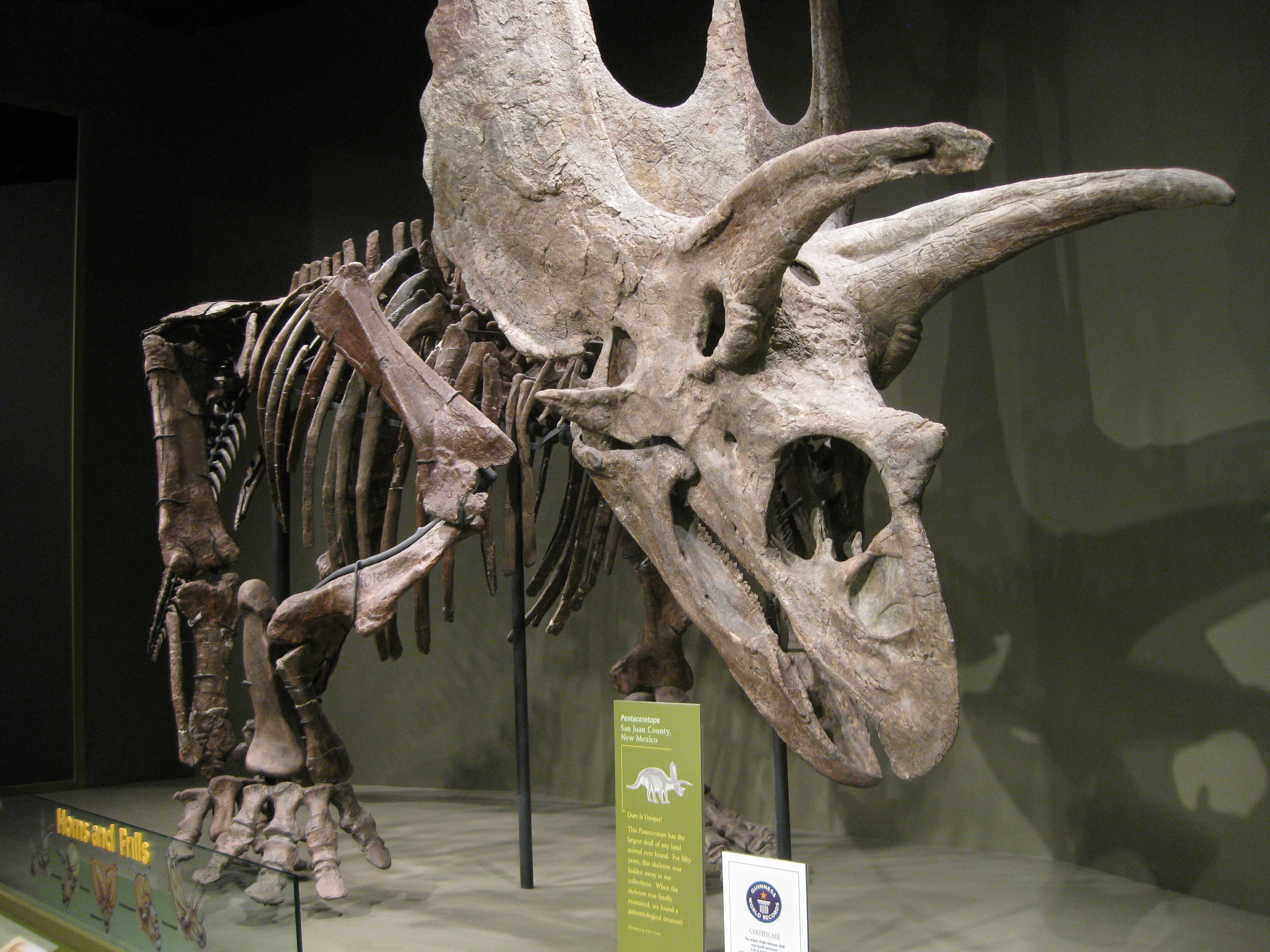 This has the largest skull of any land animal ever found.